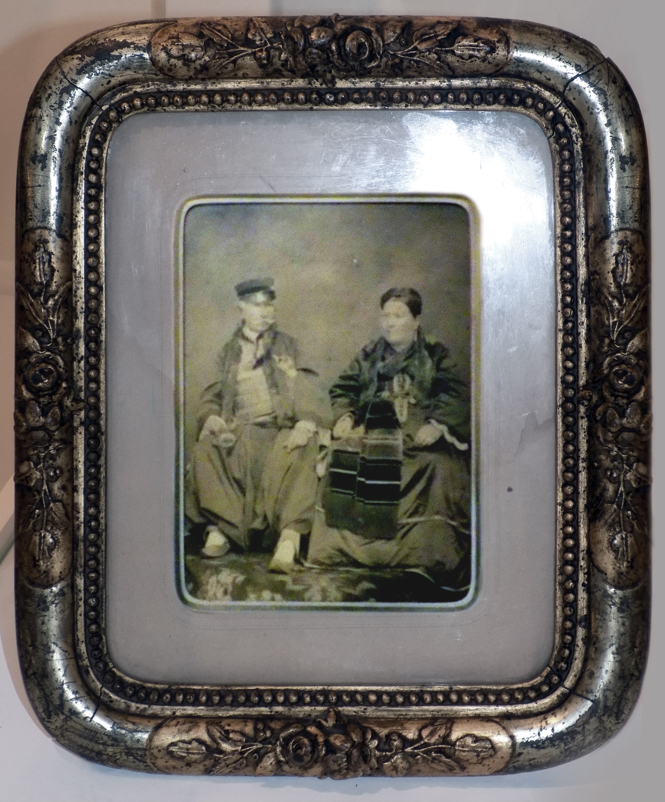 Rista Prendić, Serbian princely tatar (postman) since 1835 to 1892 (PTT Museum in Belgrade) - in a photo with his wife Magdalena